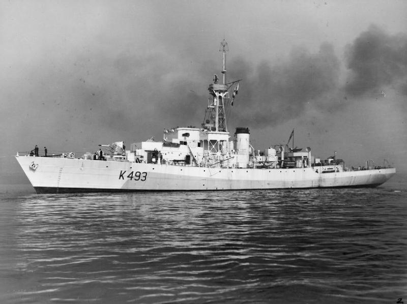 The Canadian Castle class corvette HMCS Bowmanville (K493), sometime between 1943 and 1946.